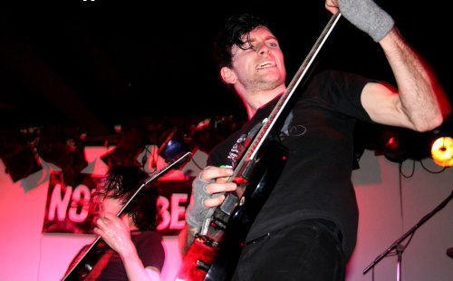 I Killed The Prom Queen guitarist Jona Weinhofen performing live with the band at the Corner Hotel, Melbourne in August 2005. Kevin Cameron is visible in the left background.